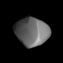 3D convex shape model of 1231 Auricula, computed using light curve inversion techniques. J. Hanuš, J. Ďurech, M. Brož, B. D. Warner (June 2011). "A study of asteroid pole-latitude distribution based on an extended set of shape models derived by the lightcurve inversion method". Astronomy and Astrophysics 530: A134. ISSN 0004-6361. arXiv